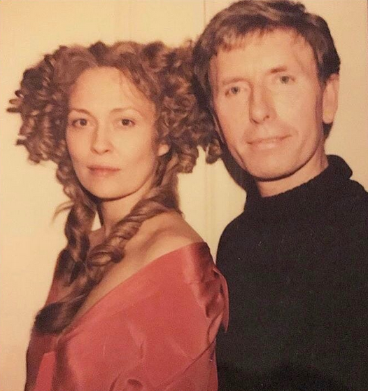 Faye Dunaway and wig maker Paul Huntley During A Wig Fitting For The Wicked Lady